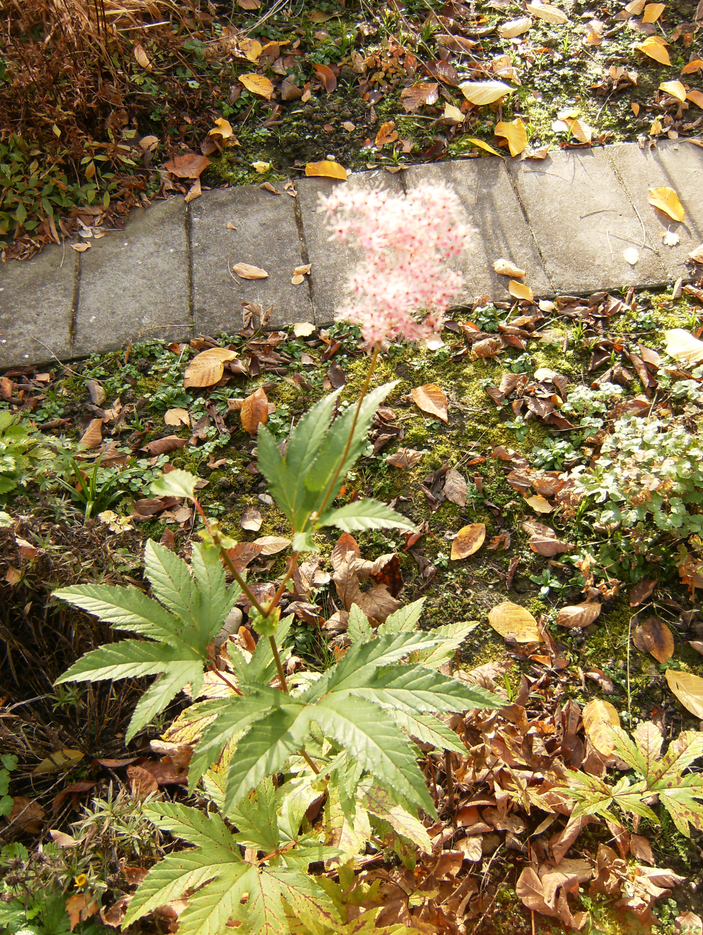 Filipendula rubra, Hochschule, Rapperswil SG, Switzerland.